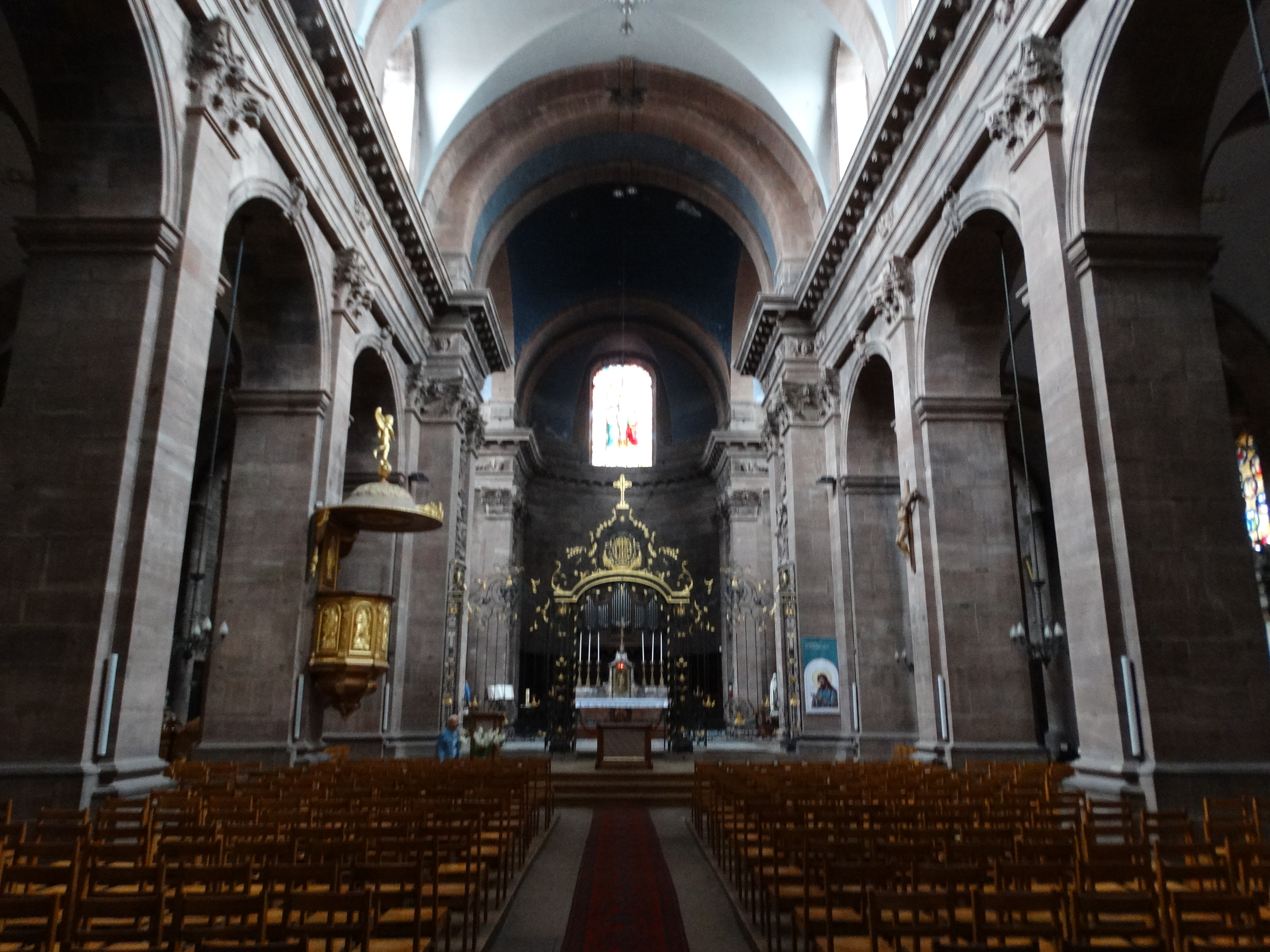 Belfort Cathedral (inner view)